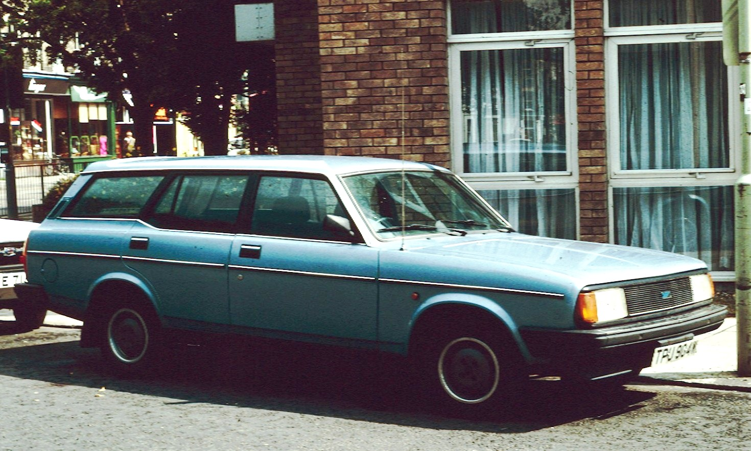 Morris Ital estate in Cambridge